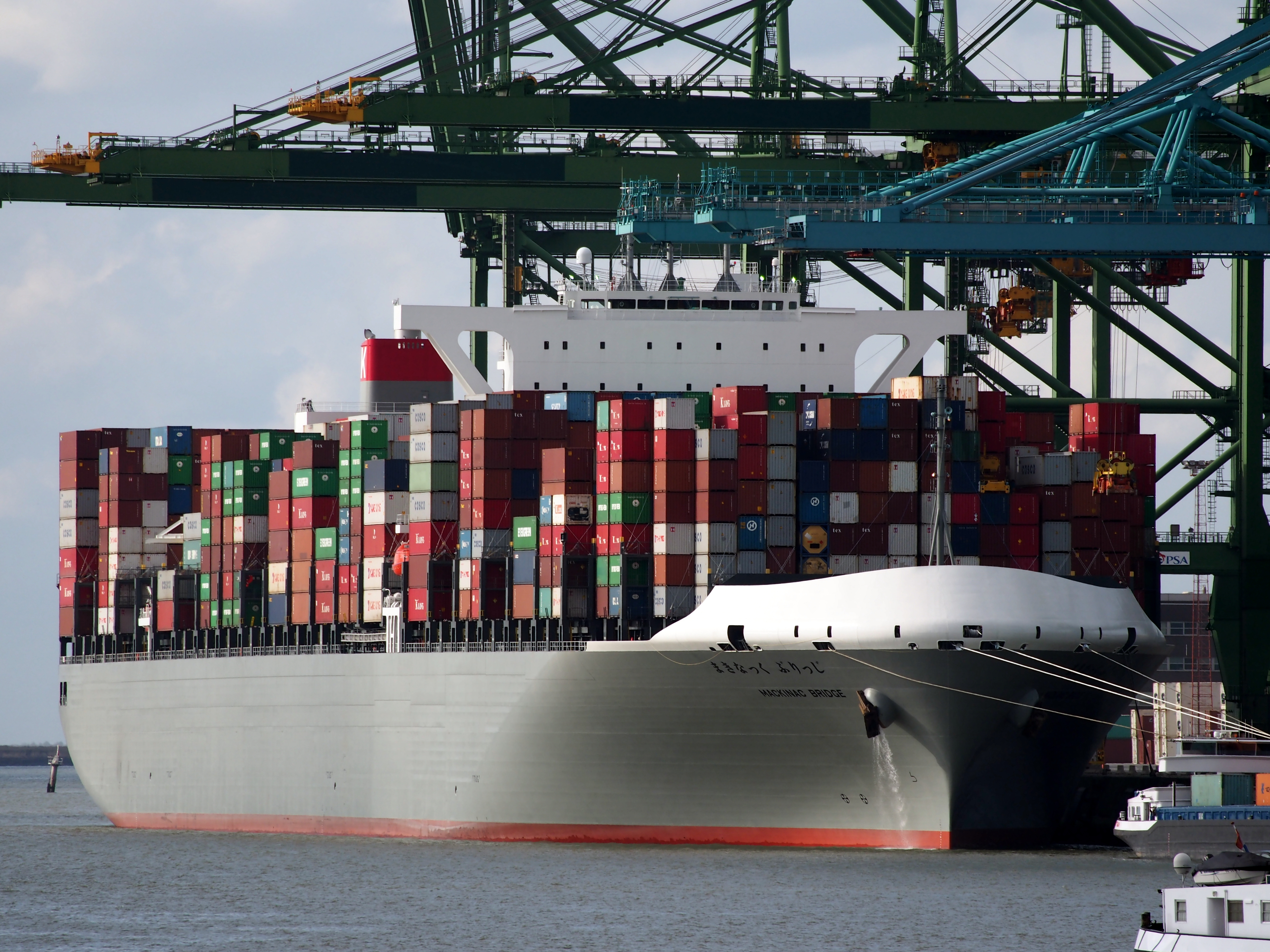 Photographed at Port of Antwerp, Belgium.